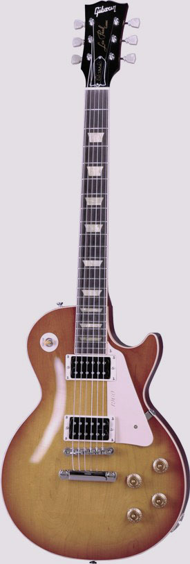 guitar Gibson Les Paul Classic